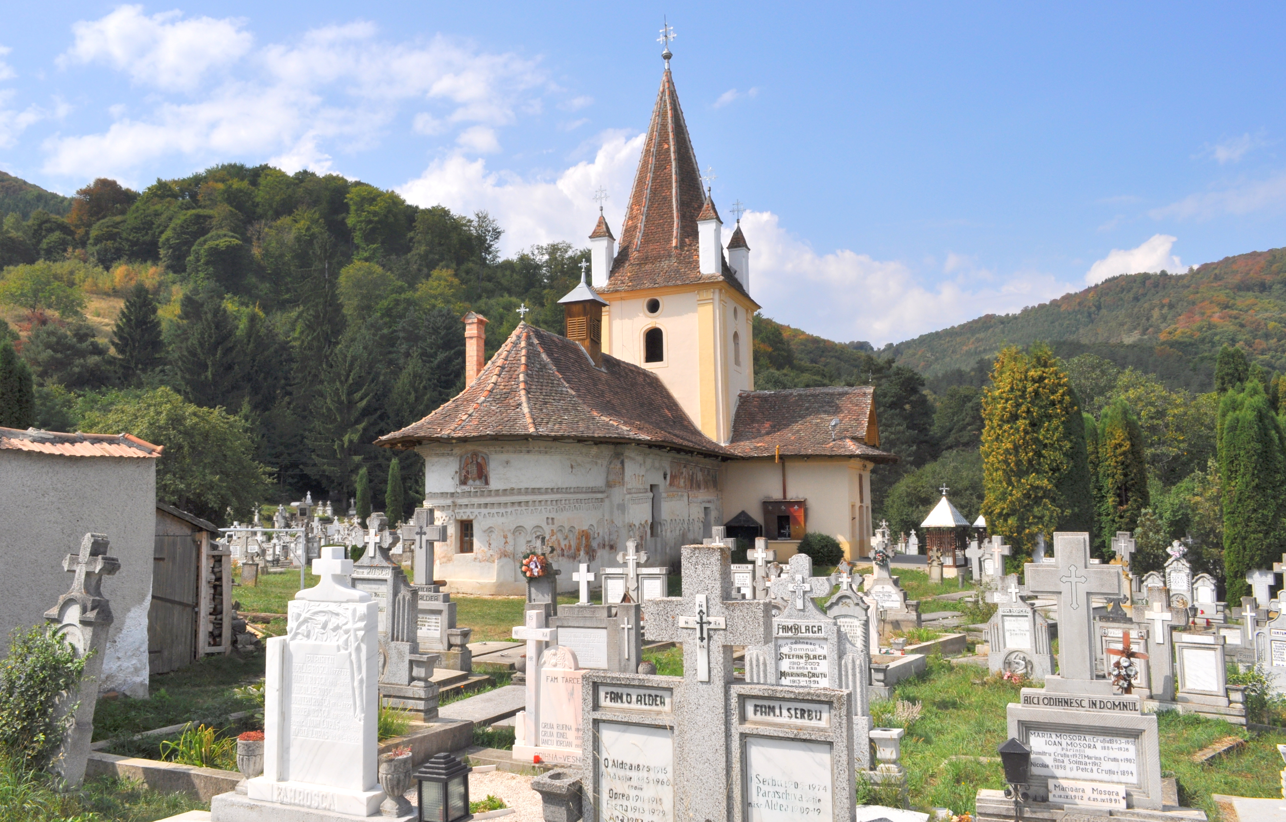 The Gruia church of ”The Nativity of Saint John the Baptist” in SălișteRomână: Biserica „Nașterea Sf.Ioan Botezătorul” din Grui, Săliște